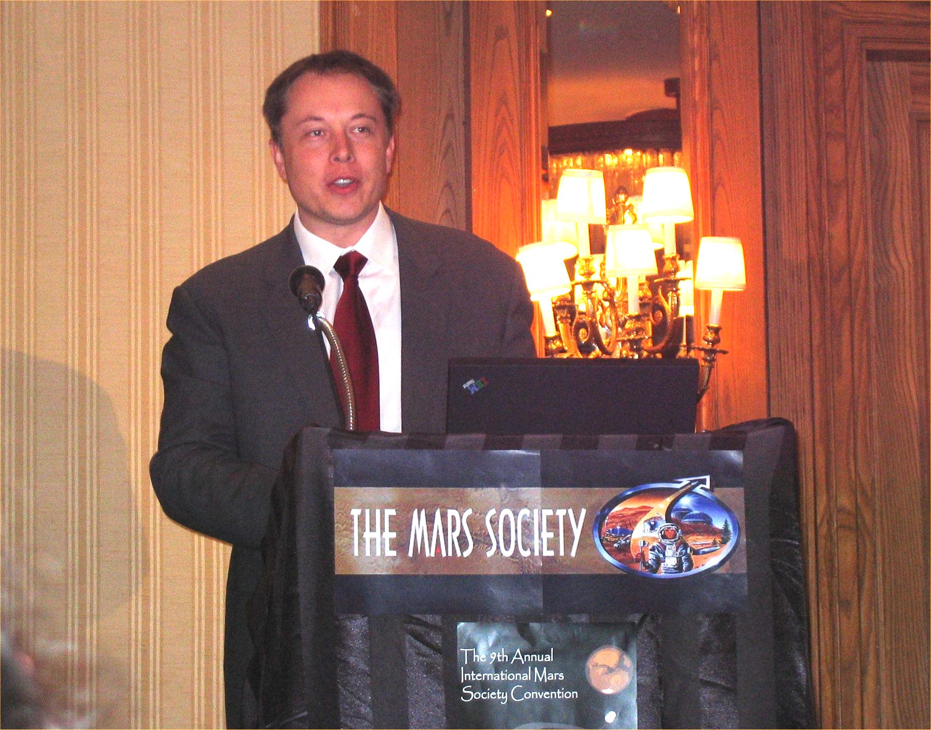 Elon Musk of SpaceX gives details on Falcon 9 launch vehicle and Dragon manned spacecraft at Mars Society Conference 2006.